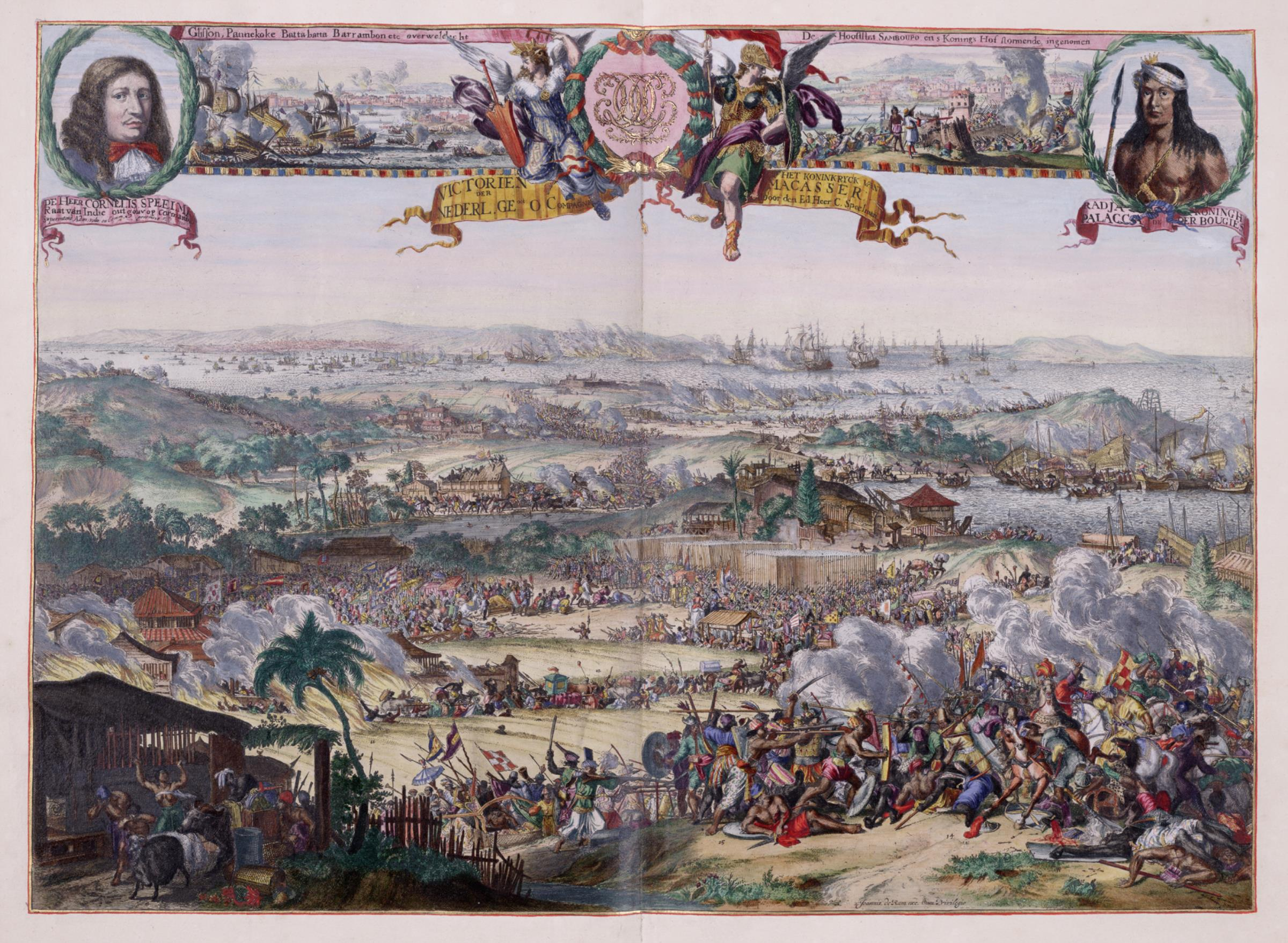 Speelman's conquest of Maccassar from 1666 to 1669 taken from the Atlas van der Hagen, Koninklijke Bibliotheek, The Hague, part 4. Compare with the print held by the Rijksmuseum, inv.nr. RP-P-OB-75-350 and en Nationaal Archief, inv.nr. VELH0619_68. This print by Romeyn de Hooghe (1645-1708) depicts a scene from the war waged between 1666 and 1669 between the Dutch East India Company led by Cornelis Speelman and the Boeginese king Radja Pallaca. The print most probably shows the decisive battle in this war; the conquest of the Boeginese castle of Samboupo on June 25, 1669. The print was published by the Amsterdam-based wood merchant and publisher of maps Johannes de Ram (deceased around 1693). The upper part of the print includes two inserts, incorporated into the title scroll, left: Glisson, Pannekoke Batta-batta Barrabon etc. conquered. Right: The capital city of SAMBOEPO and the court of the king taken by storm. Top right a portrait of Cornelis Speelman. Top left the portrait of Radja Pallaca, the king of the Boeginese.